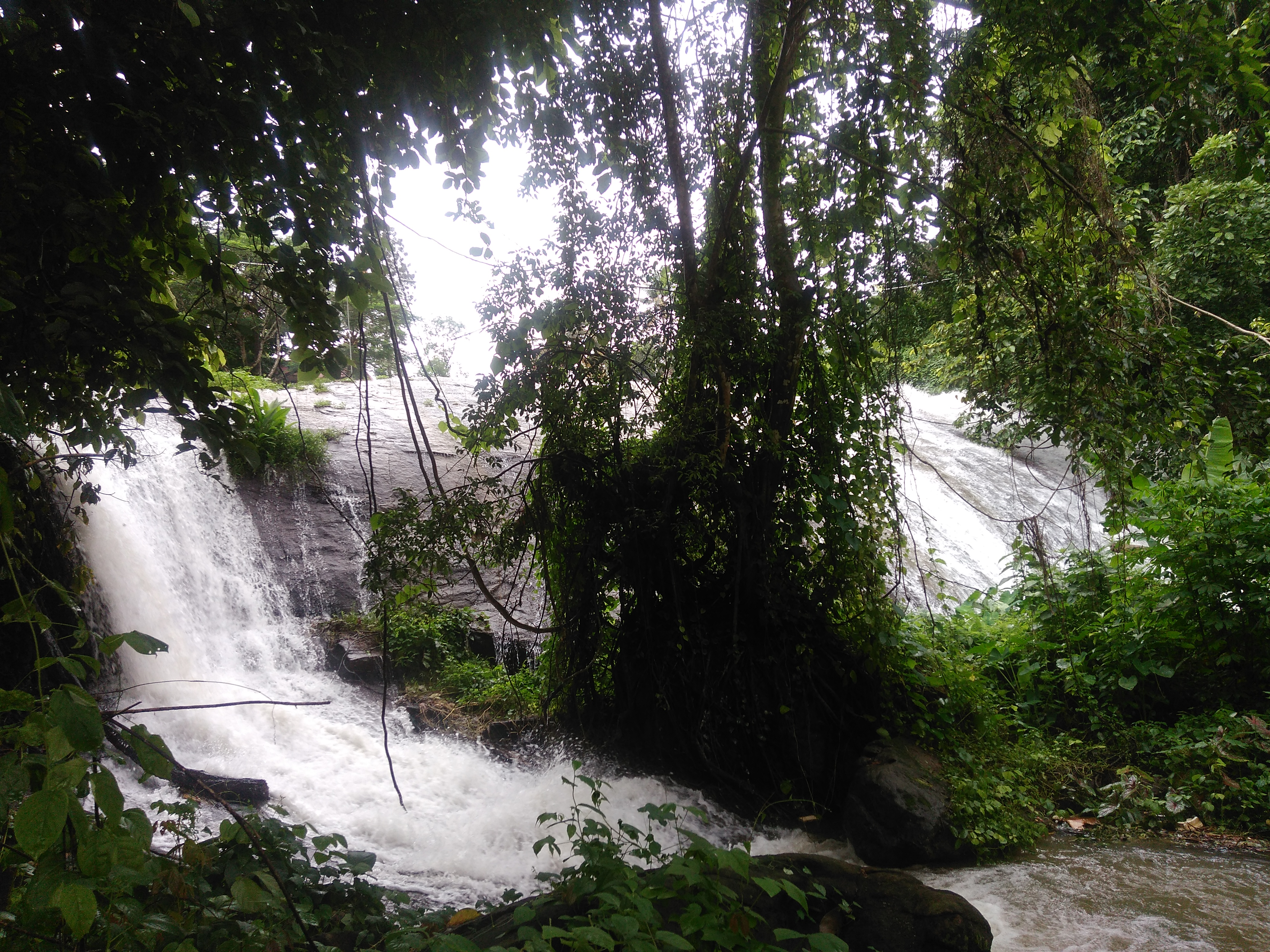 A small waterfall, not more that 20 feet. This is located in Kezhuvamkulam, near Cherpunkal, Pala, Kottayam Kerala. It looks great during mansoon season.